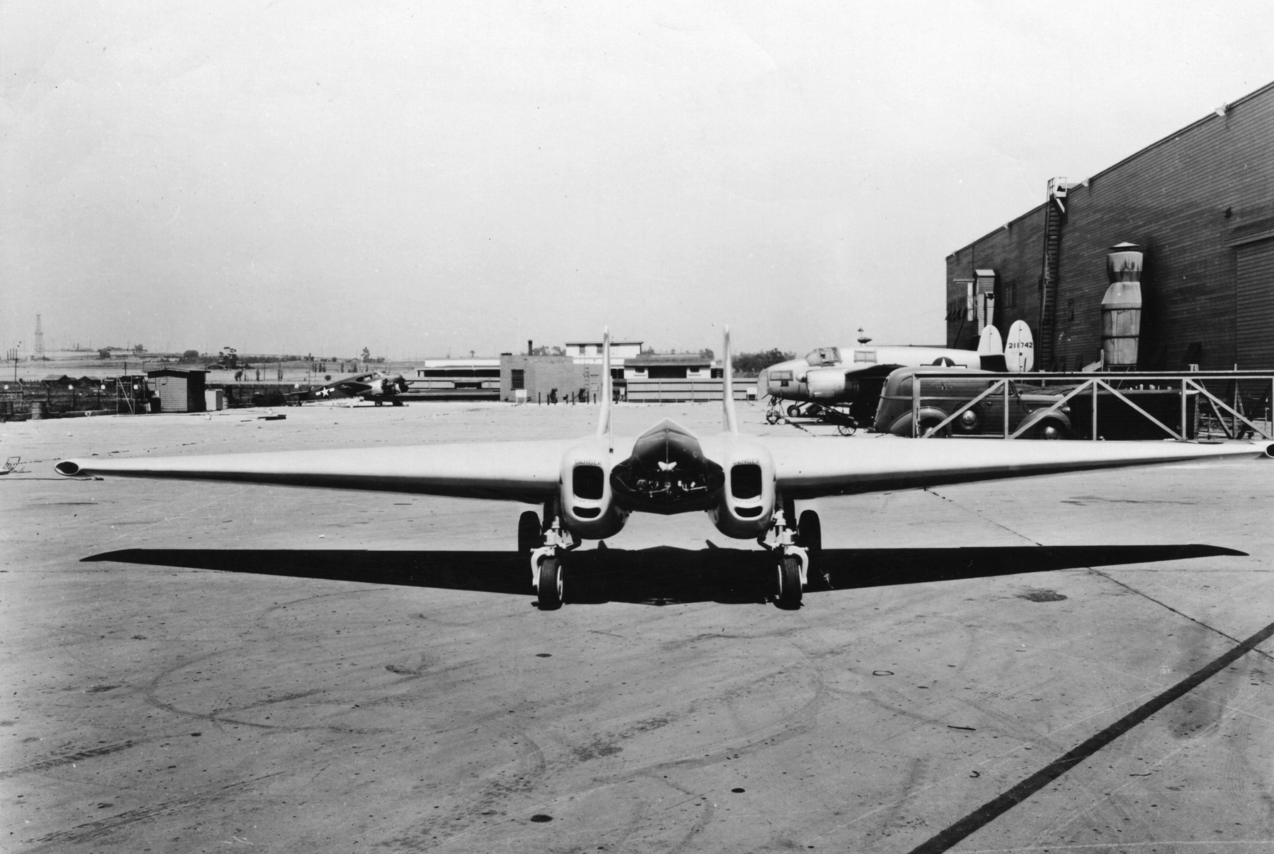 The U.S. Army Air Force Northrop XP-79B experimental jet aircraft (s/n 43-52438), in 1945. Note the Fairchild AT-21-FB Gunner aircraft (s/n 42-11742) in the background.